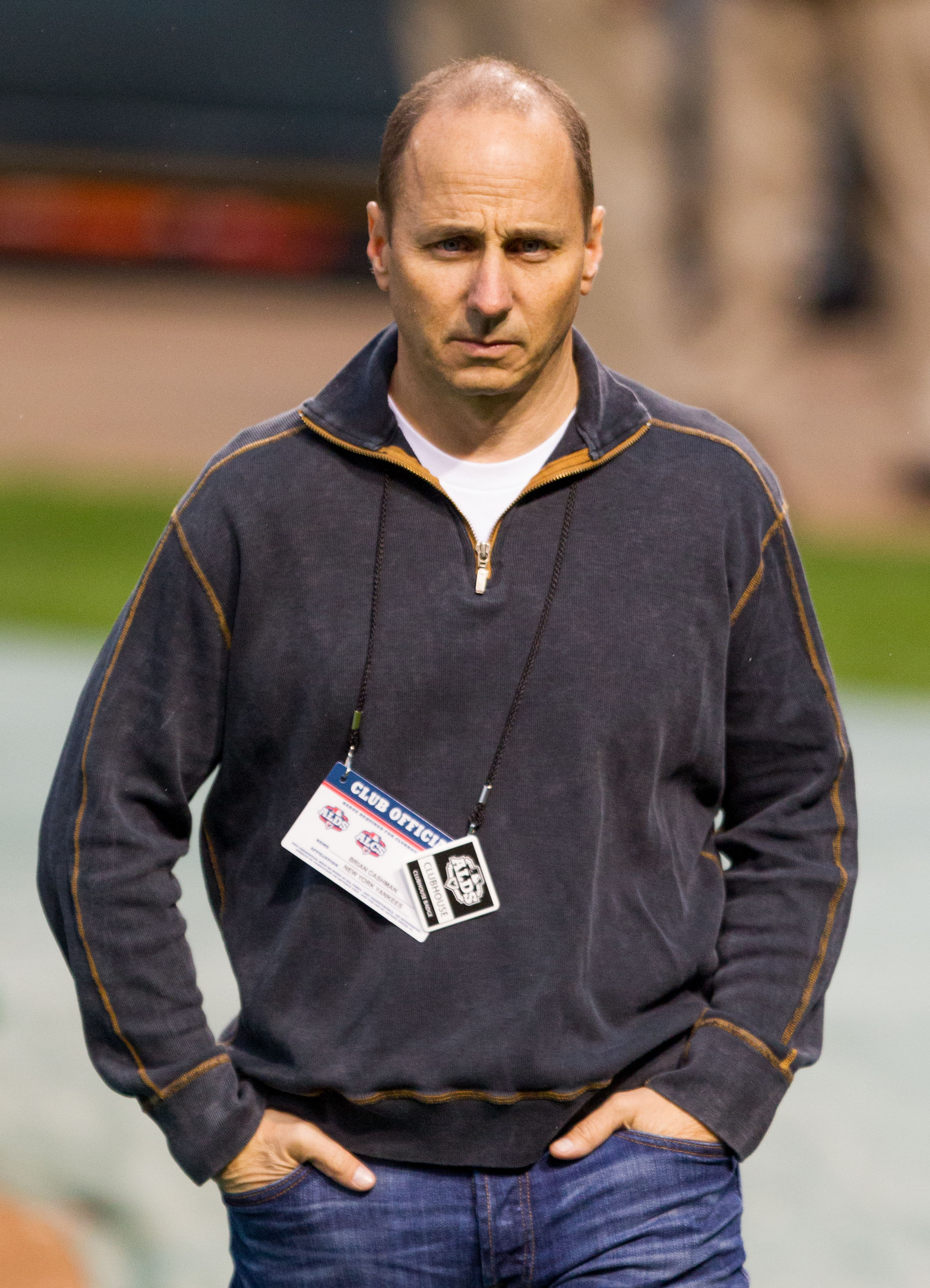 New York Yankees at Baltimore Orioles. ALDS Game 1. October 7, 2012.